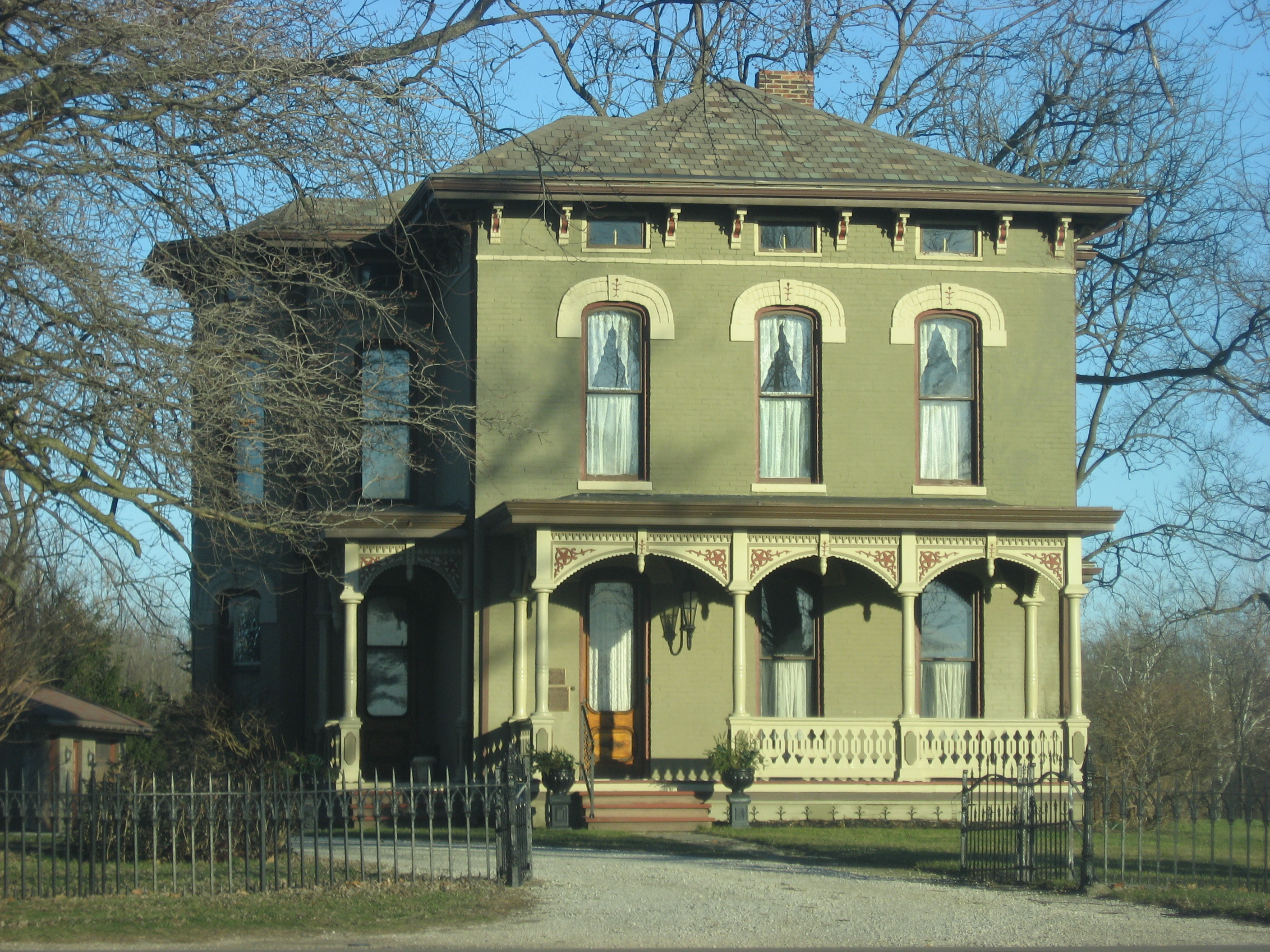 Front of the William Henry Luick Farmhouse, located at 2304 Burlington Drive on the eastern edge of Muncie, Indiana, United States. Built in 1882, it is listed on the National Register of Historic Places.